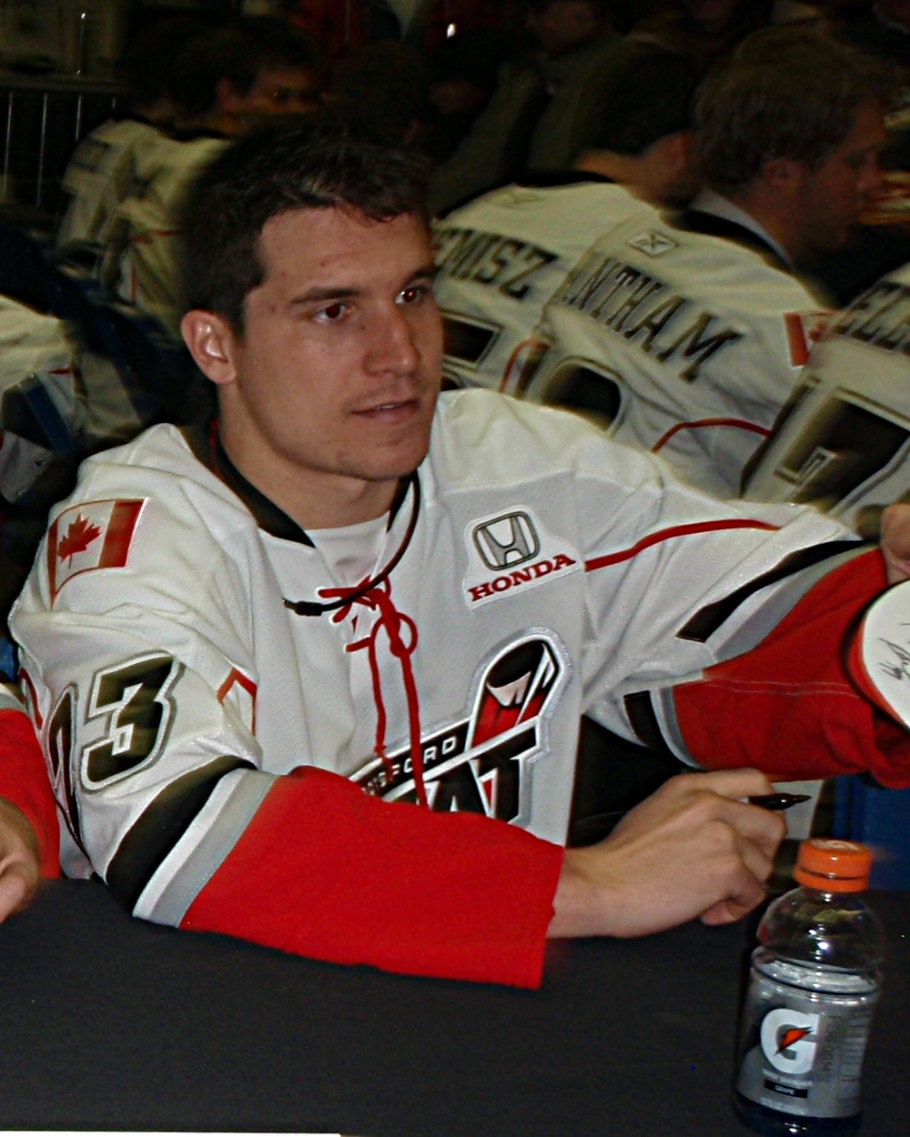 Members of the American Hockey League's Abbotsford Heat signs autographs for fans. Photo taken in Calgary, Alberta on February 18, 2011.